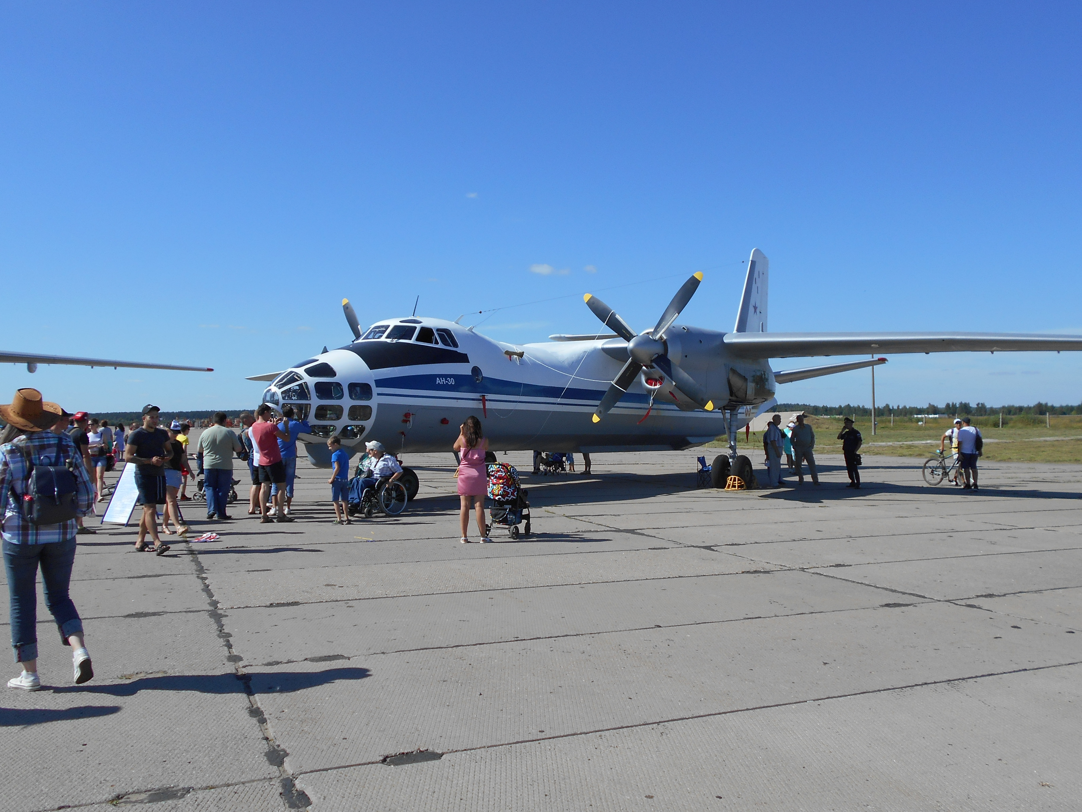 Antonov An-30.